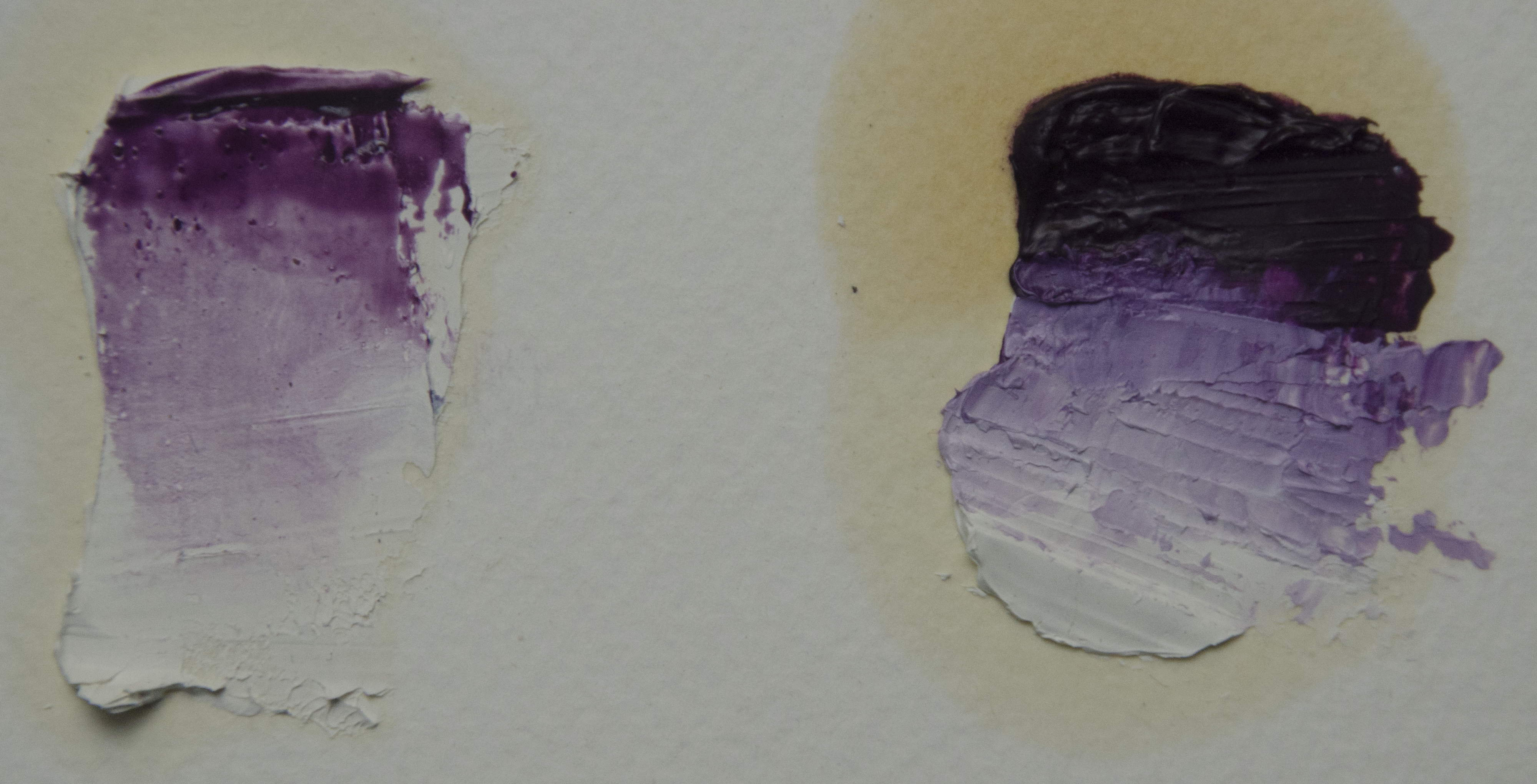 Manganese violet in oil, a standoil glaze over zinc white on the left and a mass tone on the right